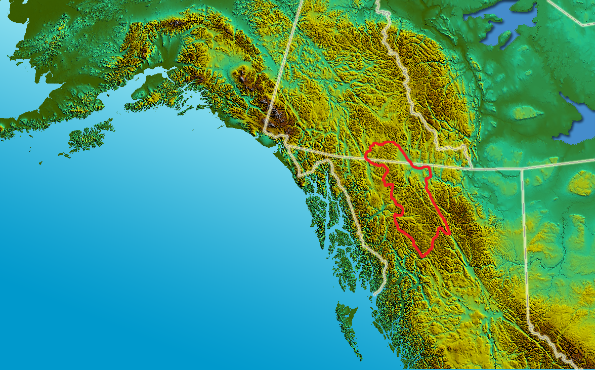 adapted from File:Alaska Panhandle-relief.png already in Wikimedia Commons.